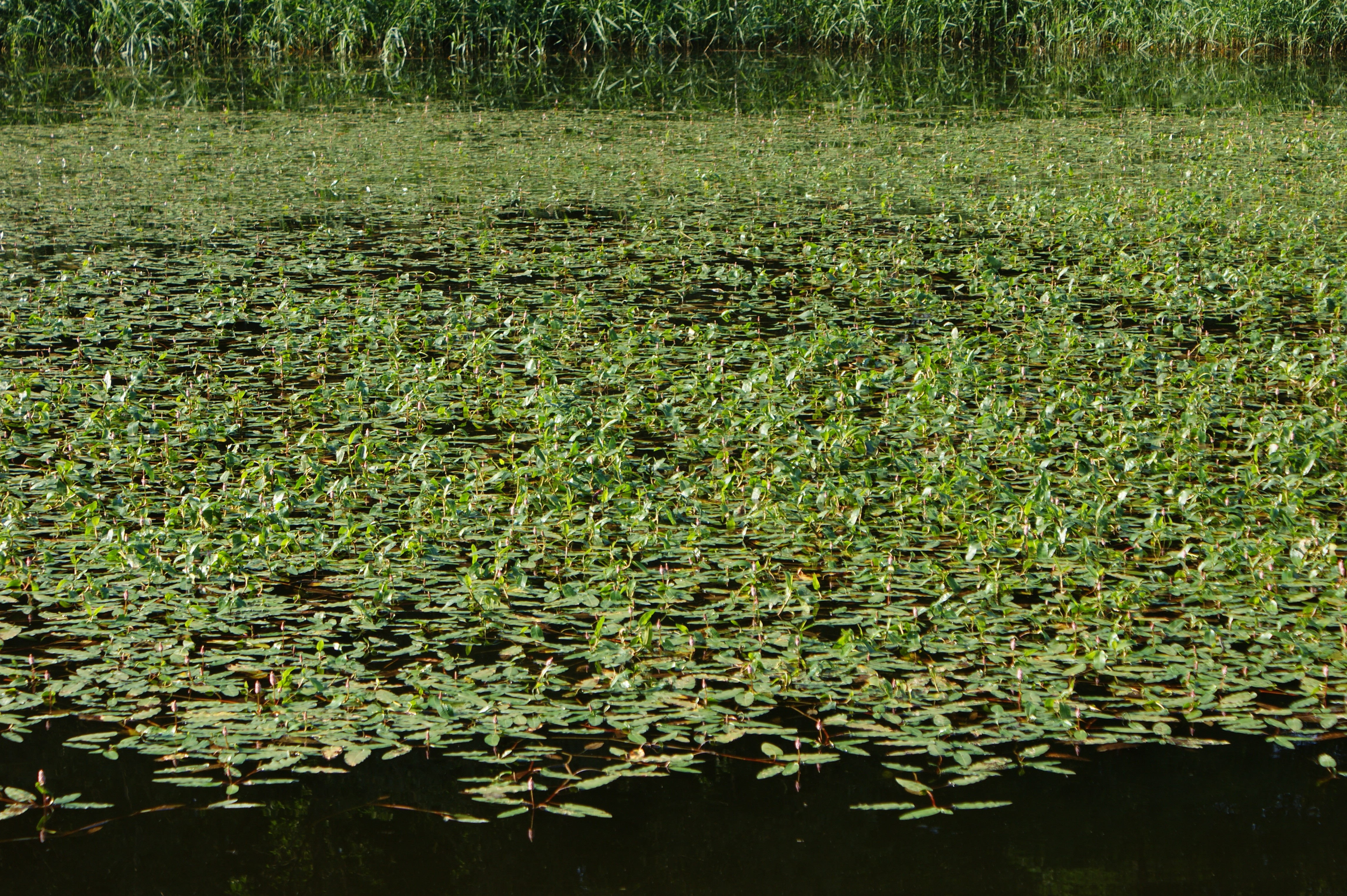 Persicaria amphibia, community in a pond near Barnówko by Myślibórz (NW Poland)